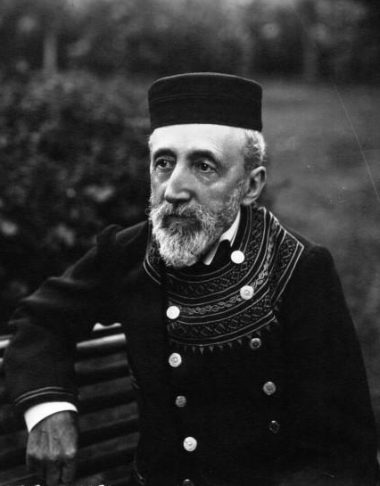 French writer Jules Claretie in his garden at Viroflay in 1909.